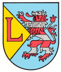 Coat of arms of Ludwigswinkel